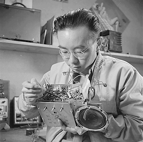 Minidoka War Relocation Center, Idaho, USA. Electric repair shop. Internee Henry Tambora, from Portland, Oregon repairing a radio.